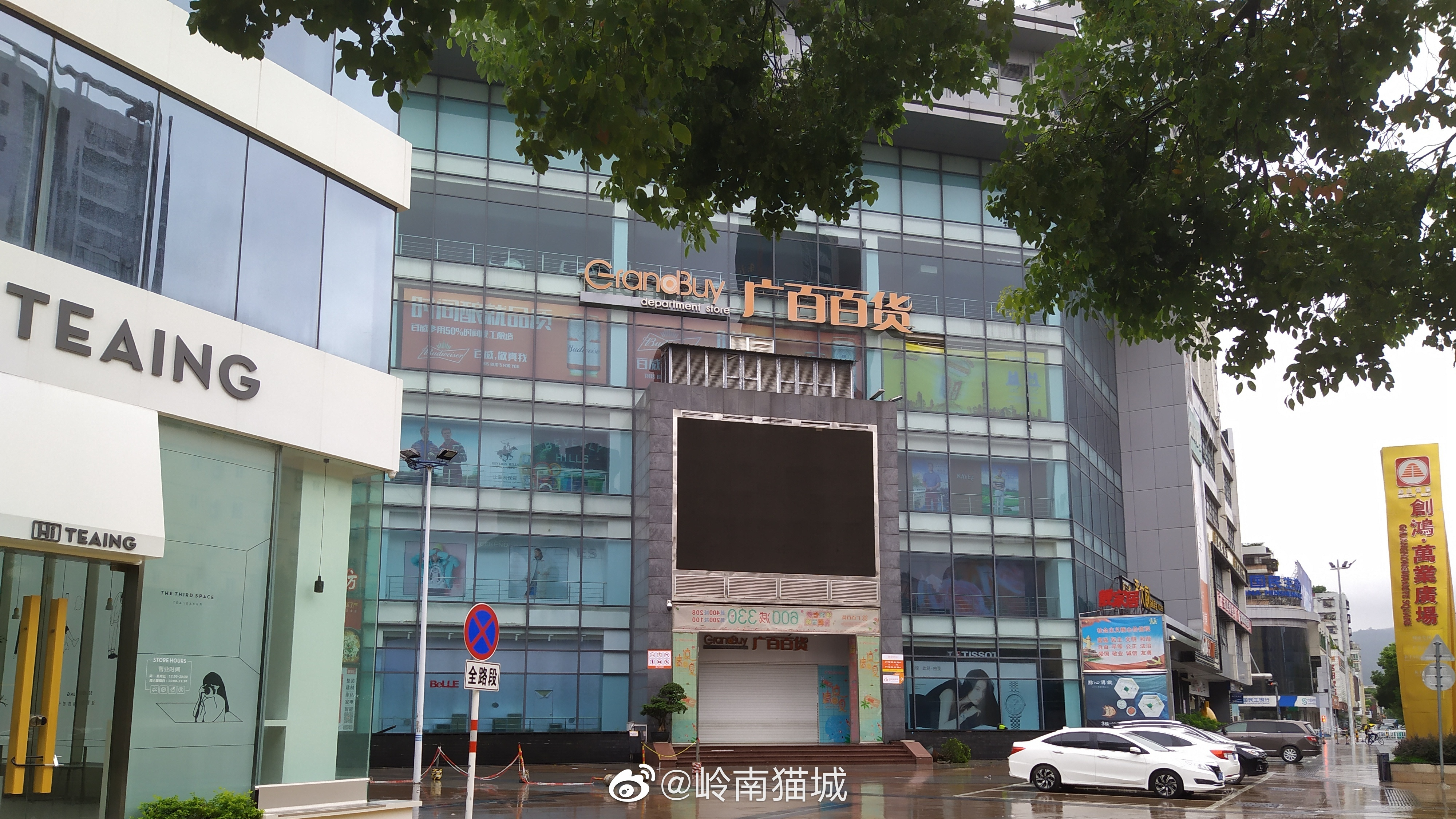 中文（中国大陆）: Grandbuy Department Store Jieyang 广百百货揭阳店